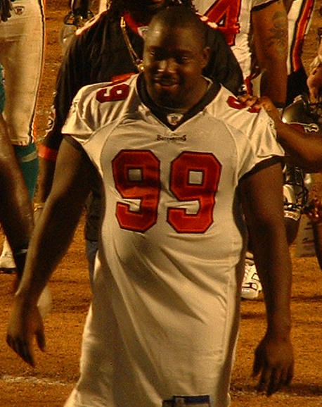 If used somewhere other than Wikipedia, Nelson, by name.